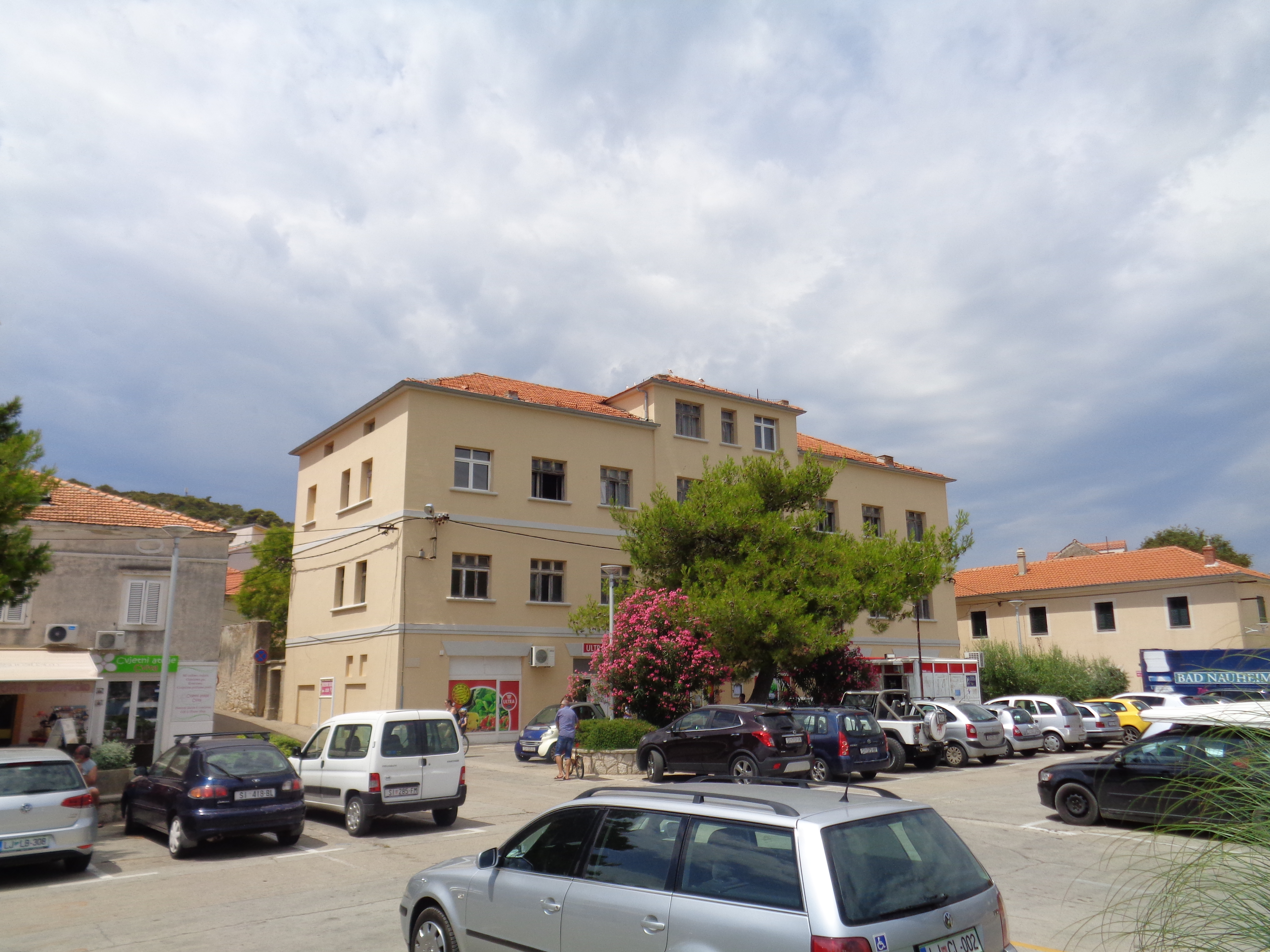 Tisno, Šibenik-Knin County, Croatia - centre